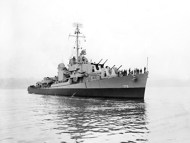 The U.S. Navy destroyer USS Douglas H. Fox (DD-779) underway with almost no way on, slightly backing down, off the Puget Sound Navy Yard, Bremerton, Washington (USA), on 15 March 1945. Note crew members at sea & anchor detail. The ship is painted in Camouflage Measure 22. She has haze grey bloomers on Mount 51, while Mount 52 has black bloomers.